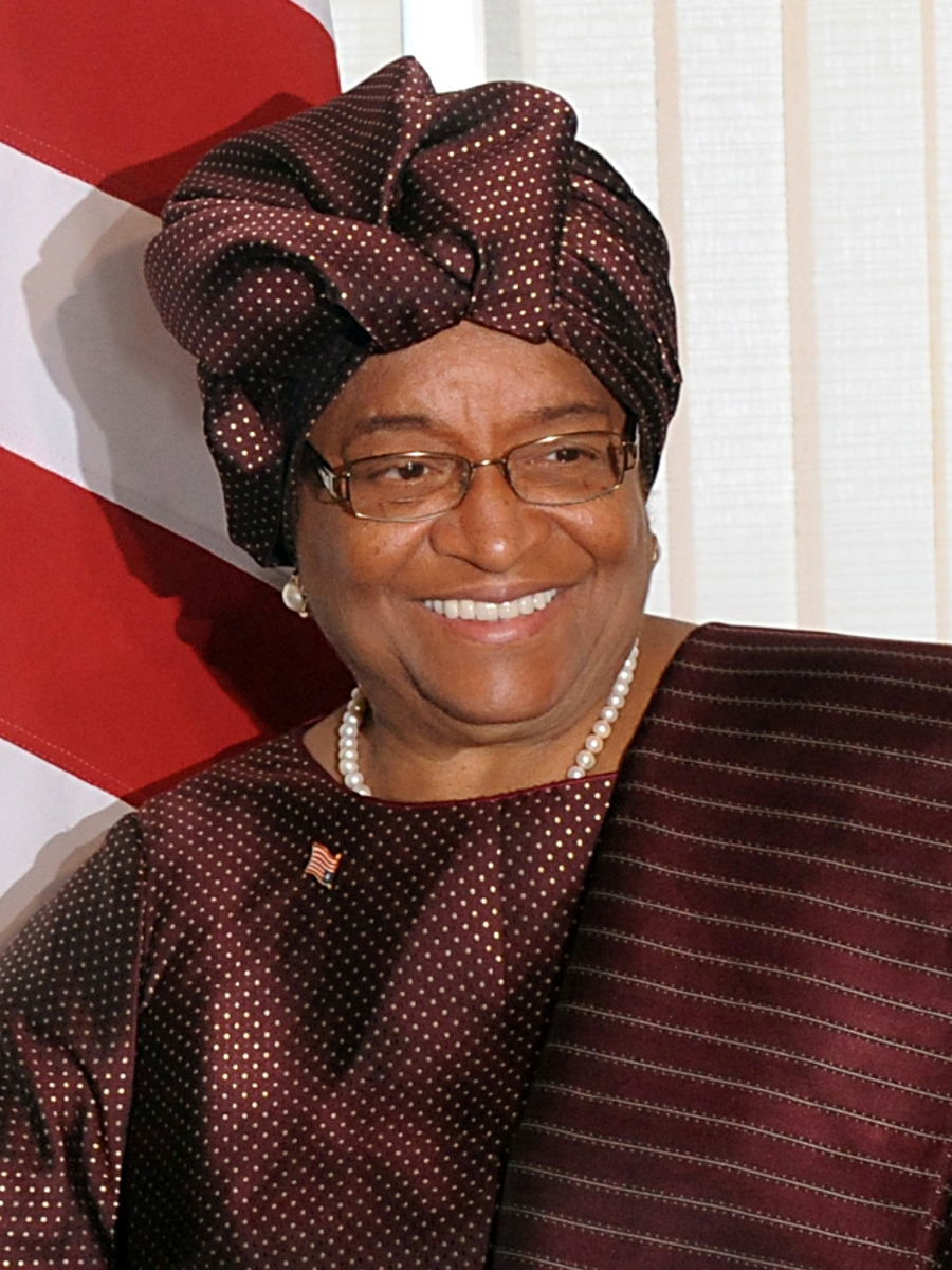 Ellen Johnson-Sirleaf, President of Liberia, during a state visit to Brazil, April 2010.